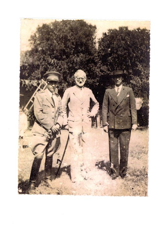 Herman Busch in Chaco.